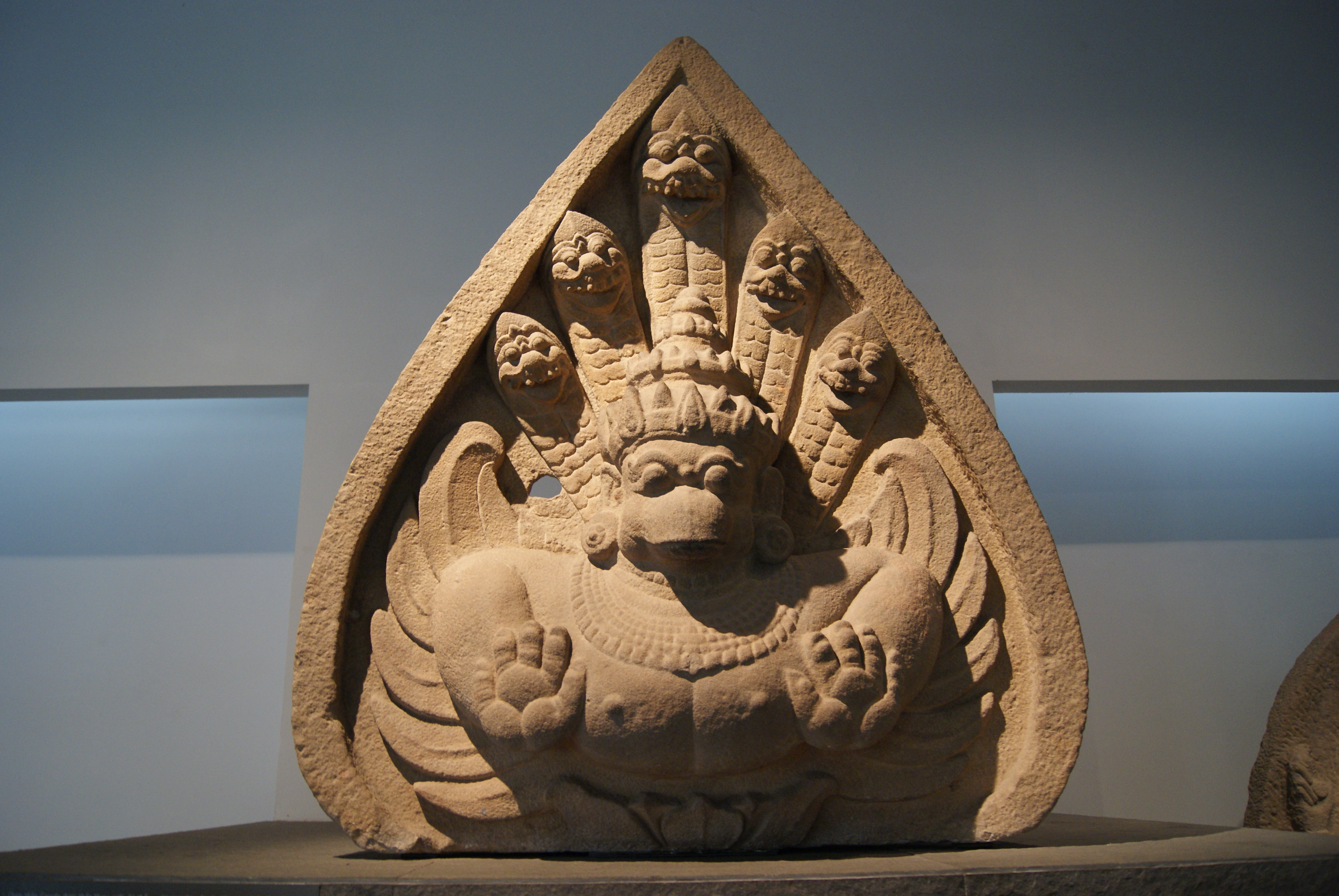 Pediment with Garuda and a nāga from Trà Kiệu, Quảng Nam Province, Vietnam.